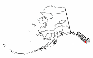 Adapted from Wikipedia's AK borough maps by Seth Ilys.